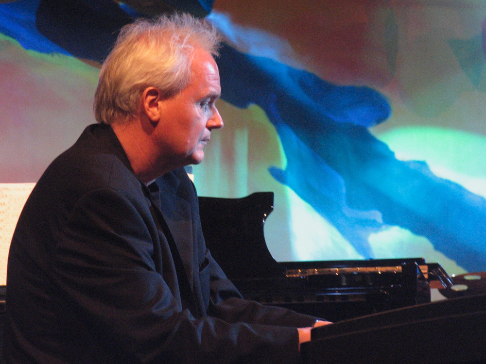 Ketil Bjørnstad at Mœrs festival 2004